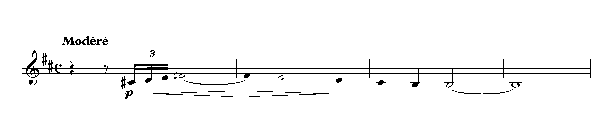 Debussy, "Nuages" - Cor Anglais melody, bars 5-8